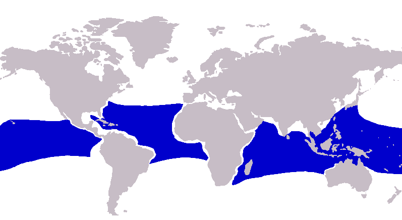 Distribution of black jack, Caranx lugubris using map based on GDFL image